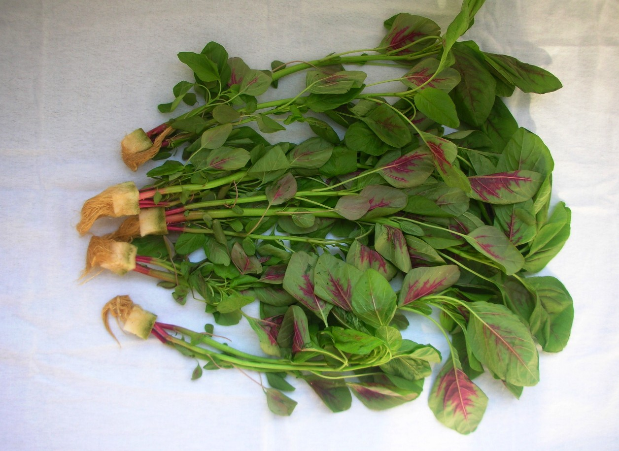 Hydroponic Pak khom hybrids bought at a market in Bangkok